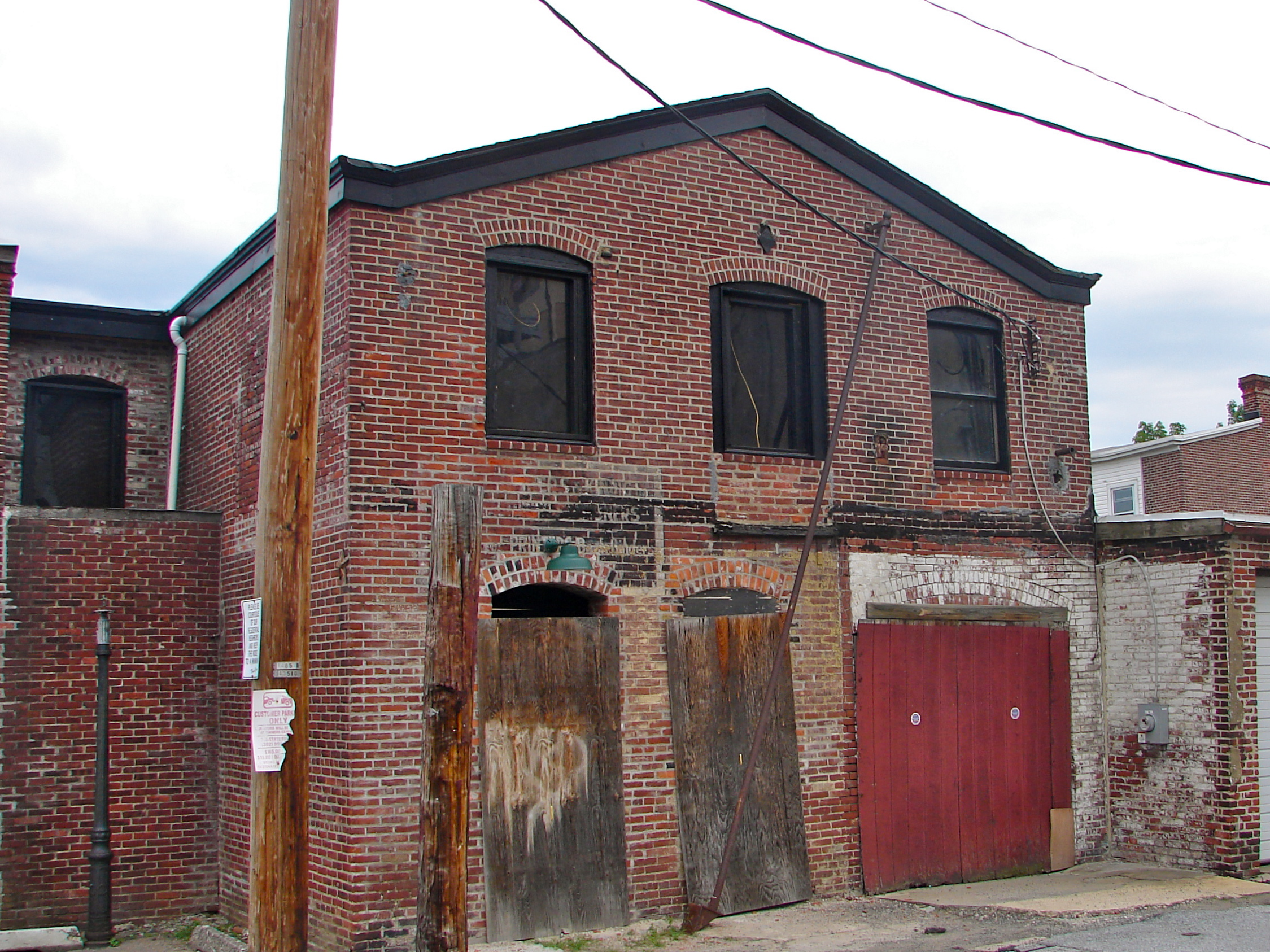 Torbert Street Livery Stables on the NRHP since September 14, 1998. At 305-307 Torbert St. (it looks like an alley off of Washington), Wilmington, New Castle County, Delaware. An old industrial style building, used as a warehouse and as a motorcycle clubhouse among other things. At worst, solidly built functional building.